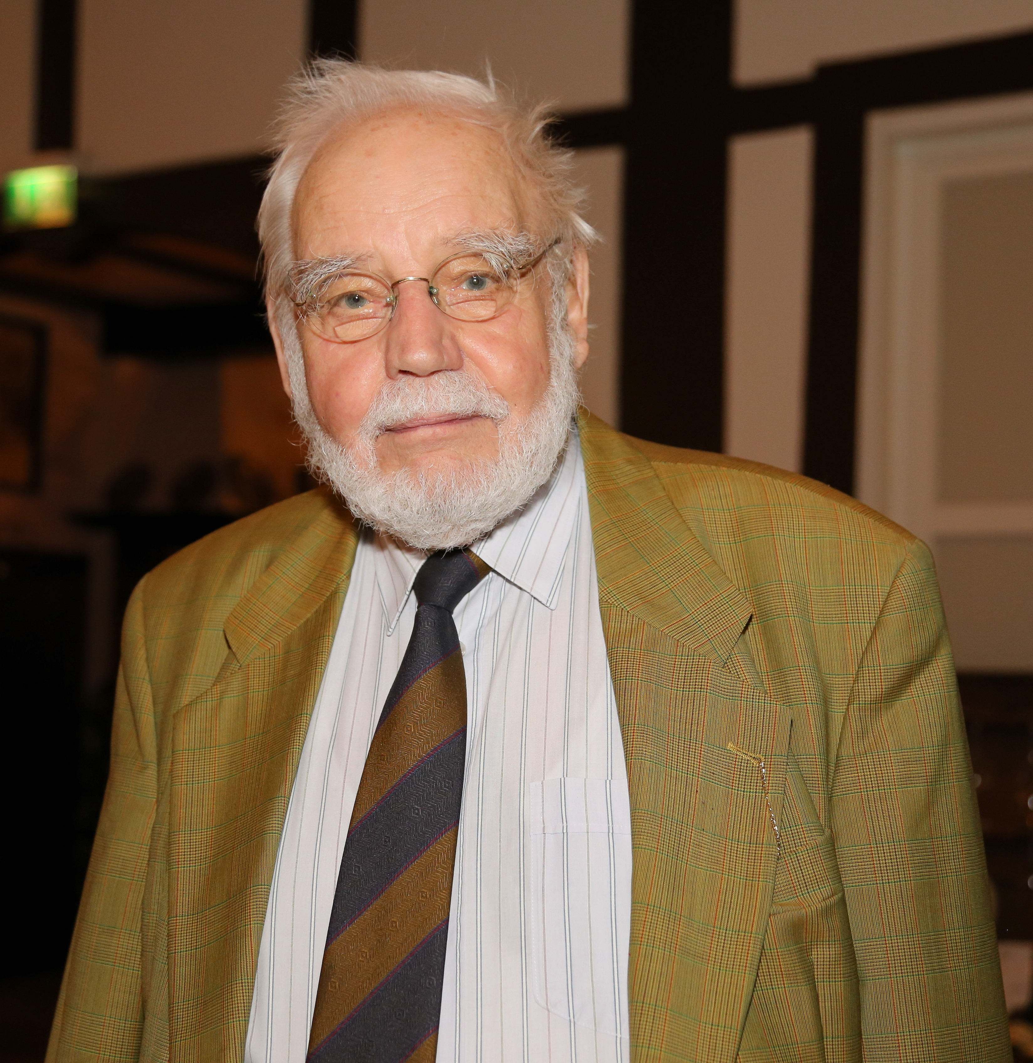 German author Rainer Schepper at Haus Telsemeyer in Mettingen, Kreis Steinfurt, North Rhine-Westphalia, Germany.